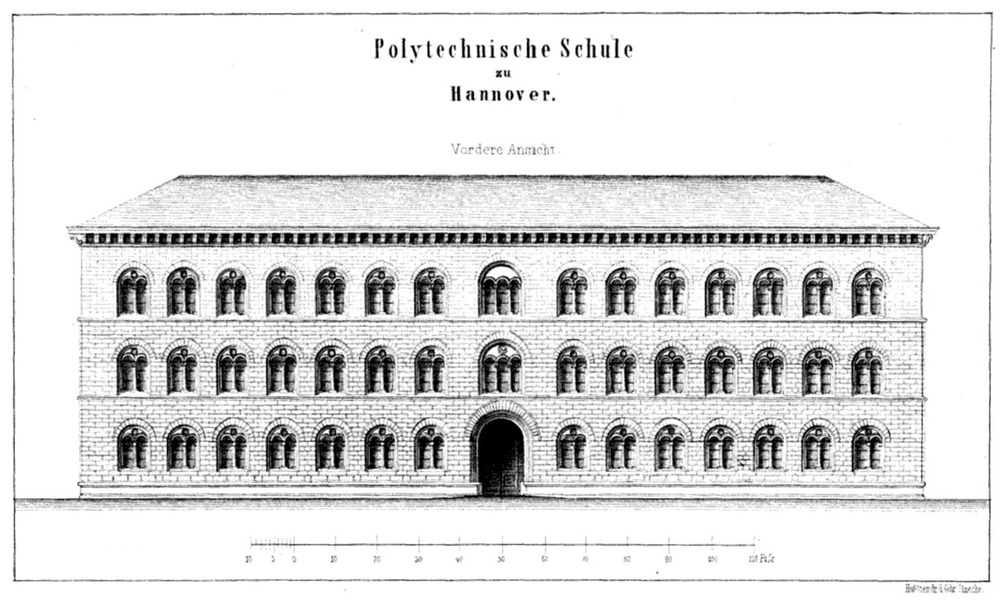 Polytechnische Schule zu Hannover, Vordere Ansicht, 1831